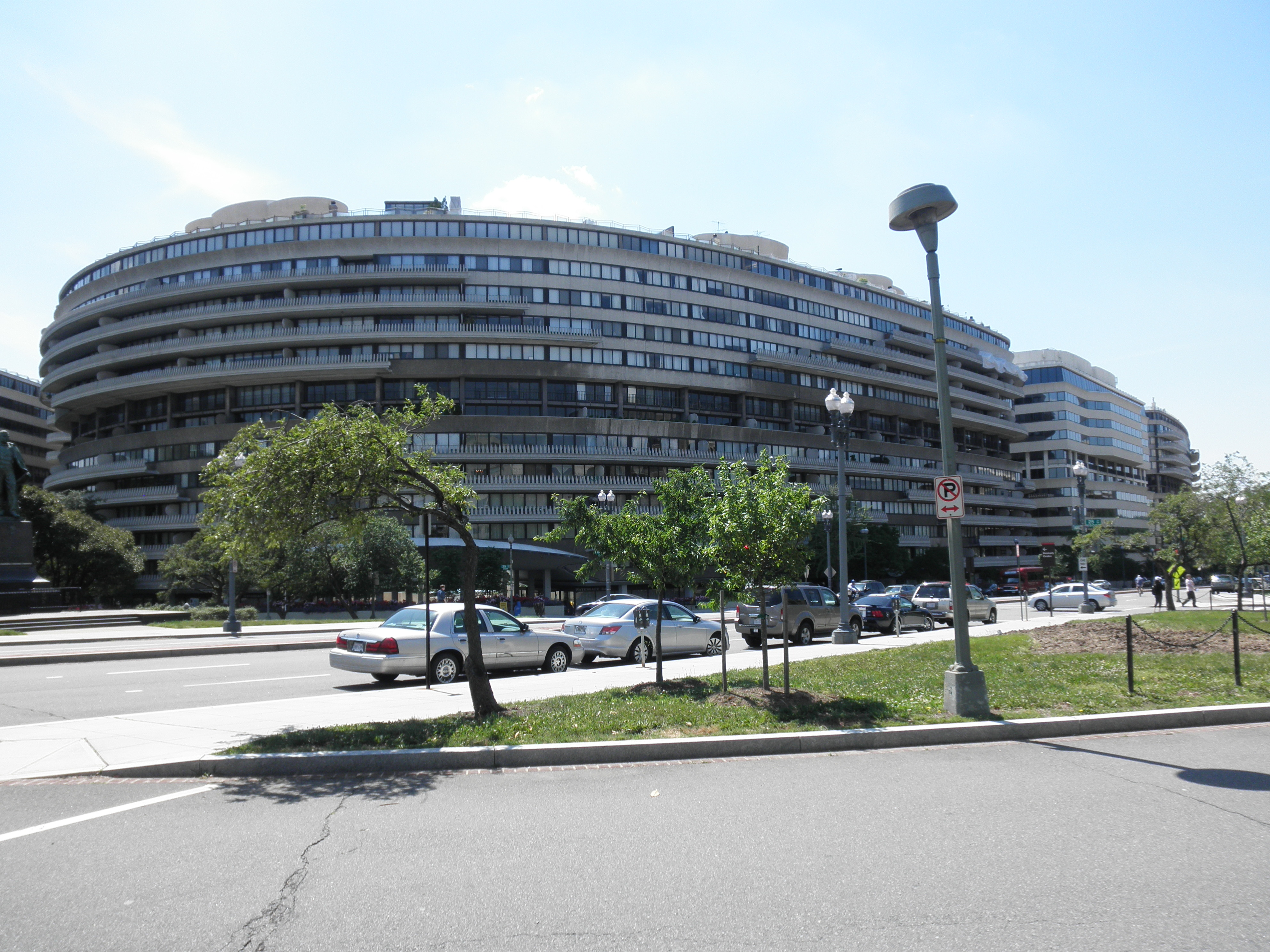 The Watergate building complex in Washington D.C.